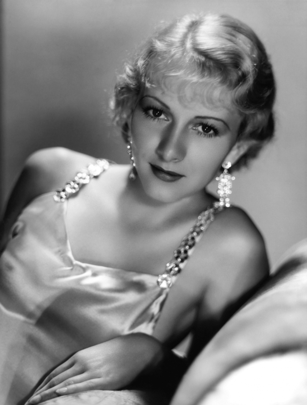 Promotional photograph of actor Karen Morley (1930s)